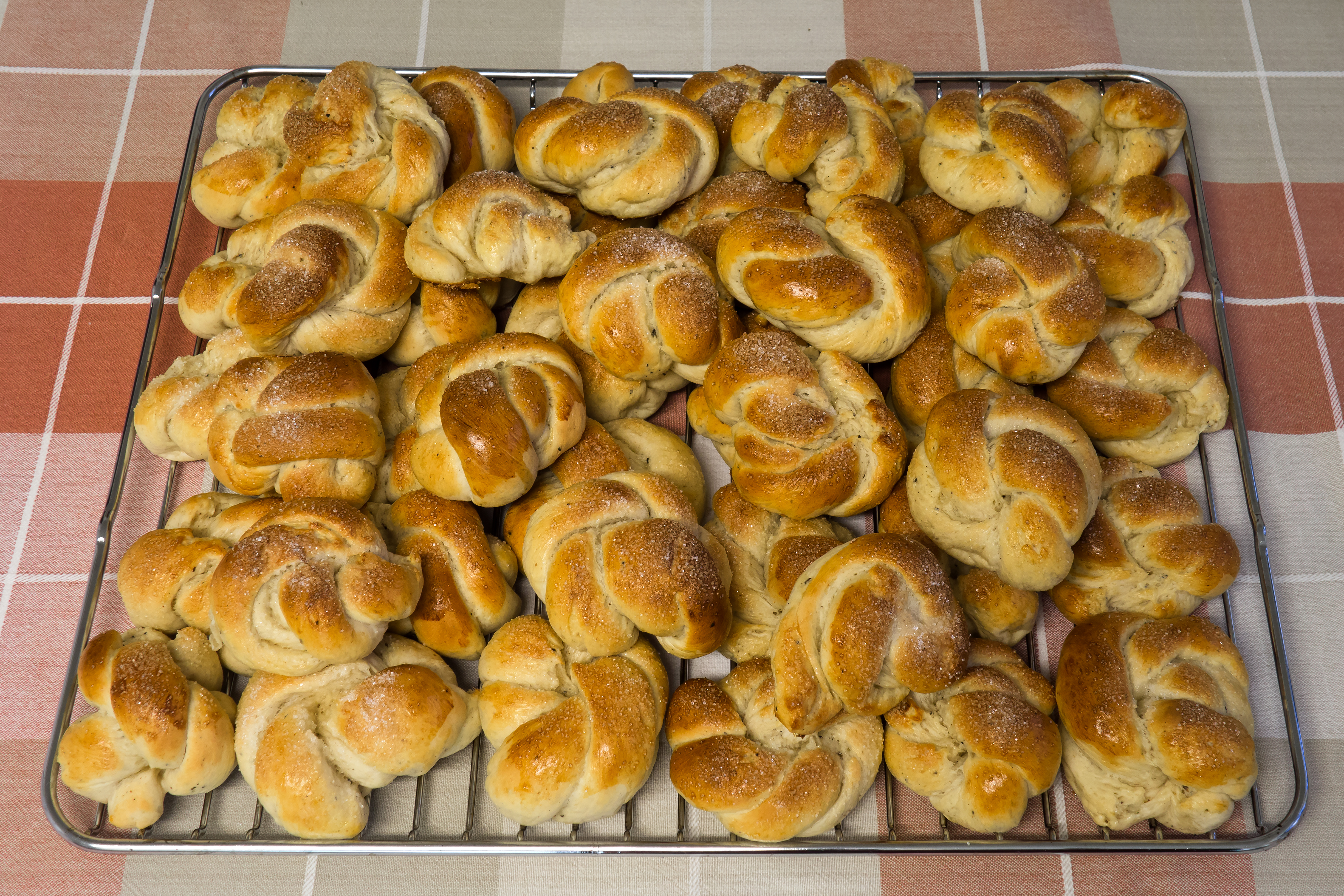 A steel grate with newly-baked cardamom buns on a checkered tablecloth in Lysekil, Sweden. Recipe (30-40 buns): Ingredients: 5 dl milk, 50 g yeast, 150 g butter, 1 dl sugar, ½ tablespoon salt, 2 generous tablespoons crushed cardamom, ½ tablespoon ground cinnamon, 800 g all-purpose flour, 1 egg. Directions: Melt butter in a cooking pot and add the milk. Heat or cool until 37 °C. Pour mix into a large bowl and add yeast. Stir until the yeast is dissolved. Add sugar, salt, cardamom and cinnamon to the mix. Stir well. Mix in the flour and knead dough on a lightly floured surface until smooth. Place in a large bowl and let rise to about double size, about 40 minutes. Knead dough again, cut into 30-40 pieces and form into buns. Place buns on a sheet pan covered with baking parchment paper. Let rise about 40 minutes. Glaze with a whipped egg and sprinkle with sugar. Bake in the middle of oven at 250 °C for about 5-10 minutes. Allow to cool on a grate.